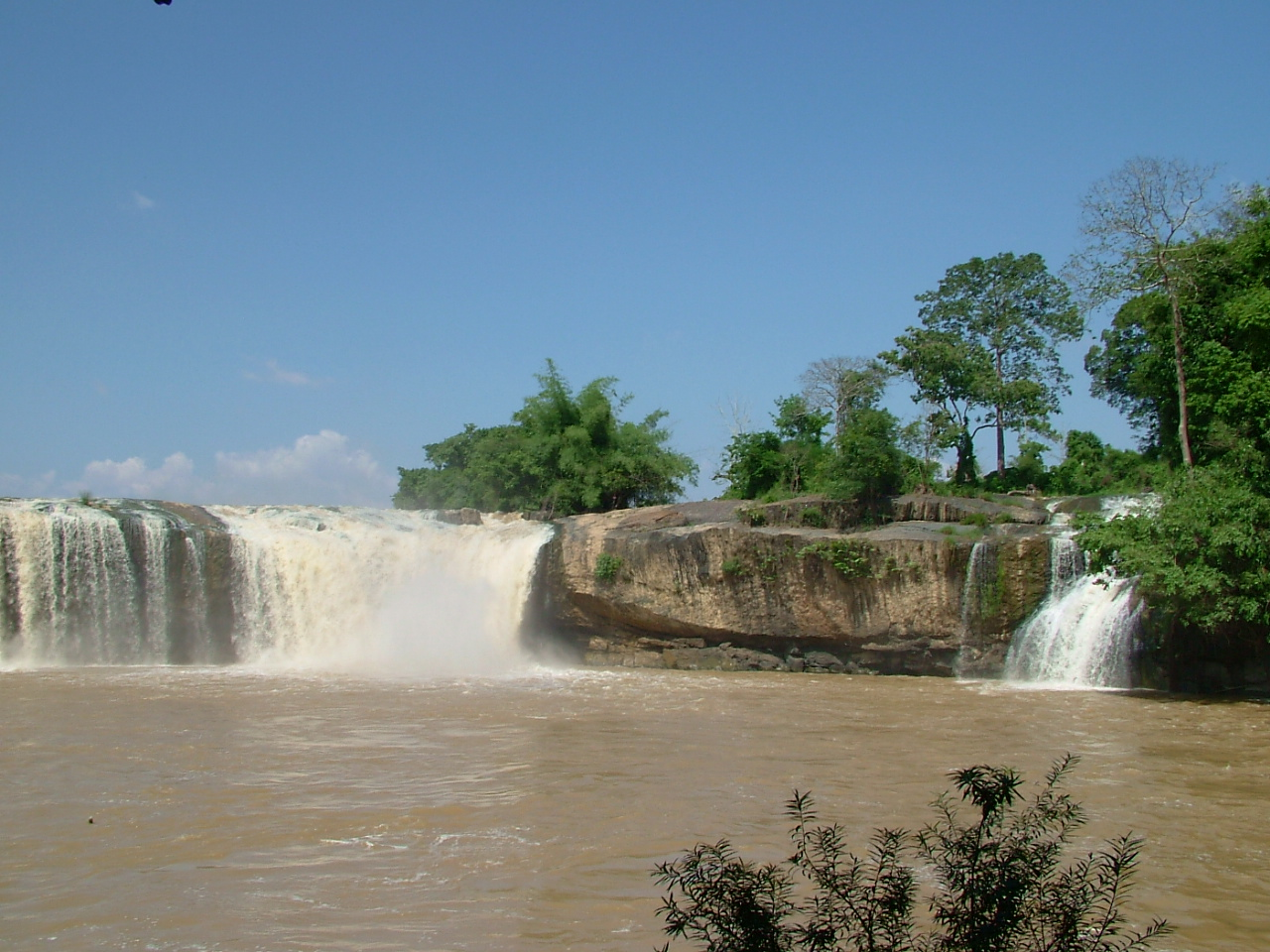 Đray Sáp Fall, Đắk Nông Province